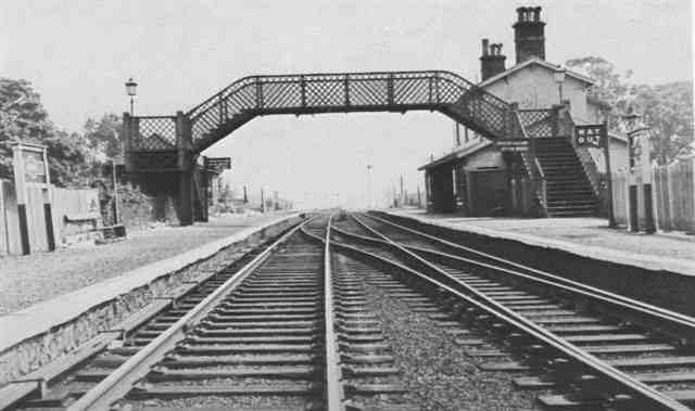 Aber railway station, Gwynedd, looking east towards Conwy